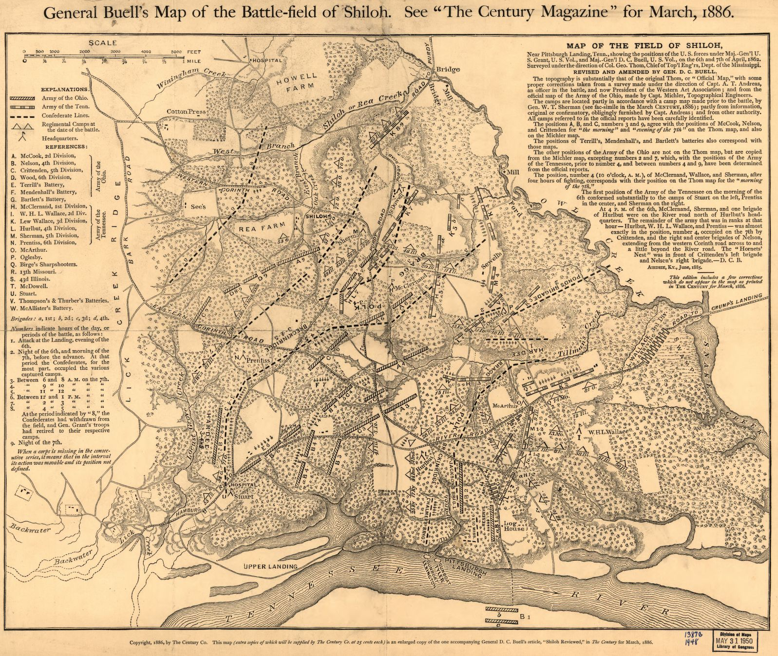 Battle map of Shiloh, by General Don Carlos Buell This image is available from the United States Library of Congress's Prints and Photographs division under the digital ID This tag does not indicate the copyright status of the attached work. A normal copyright tag is still required. See Commons:Licensing for more information.